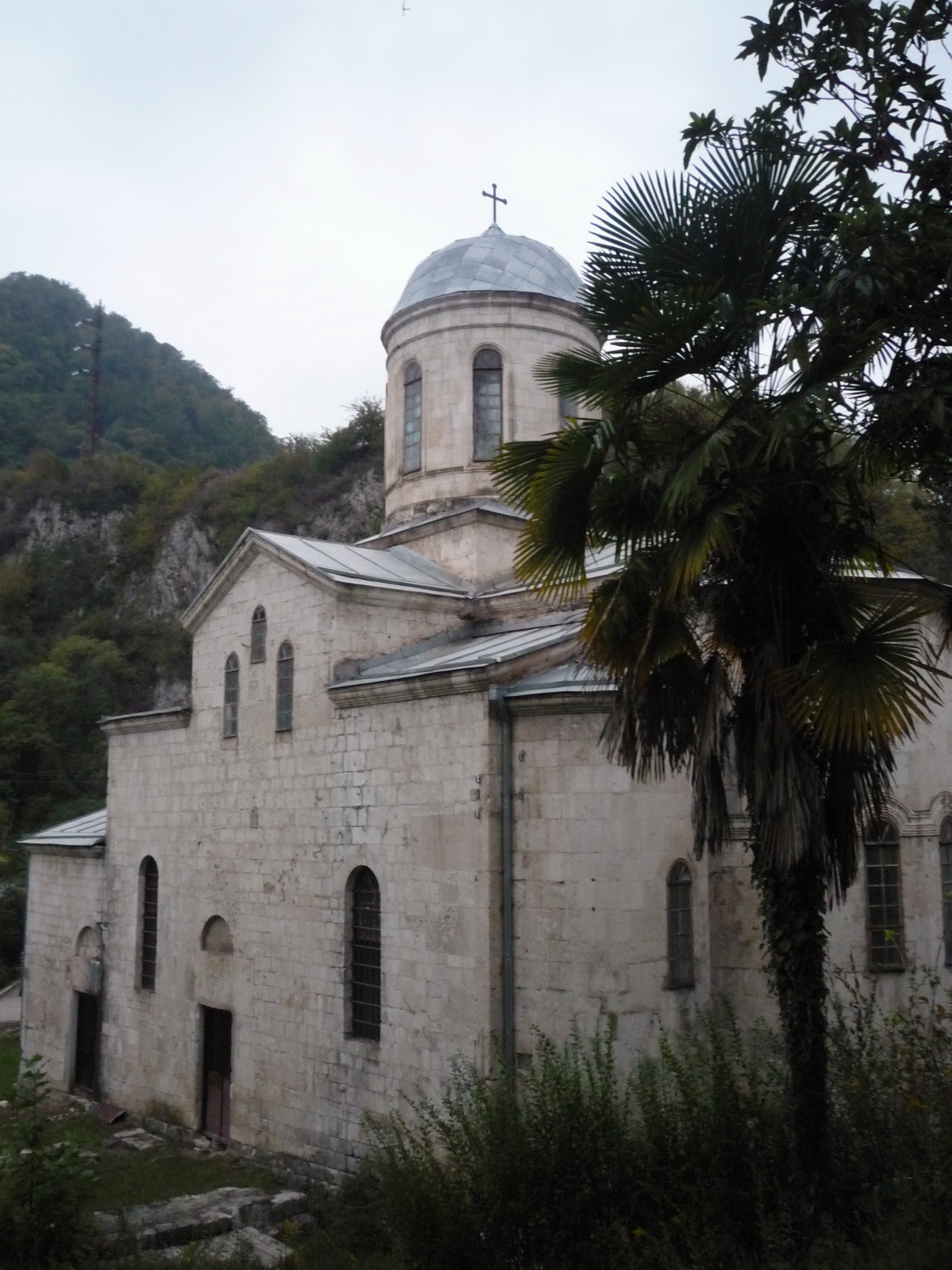 Храм Симона Канонита в Новом Афоне